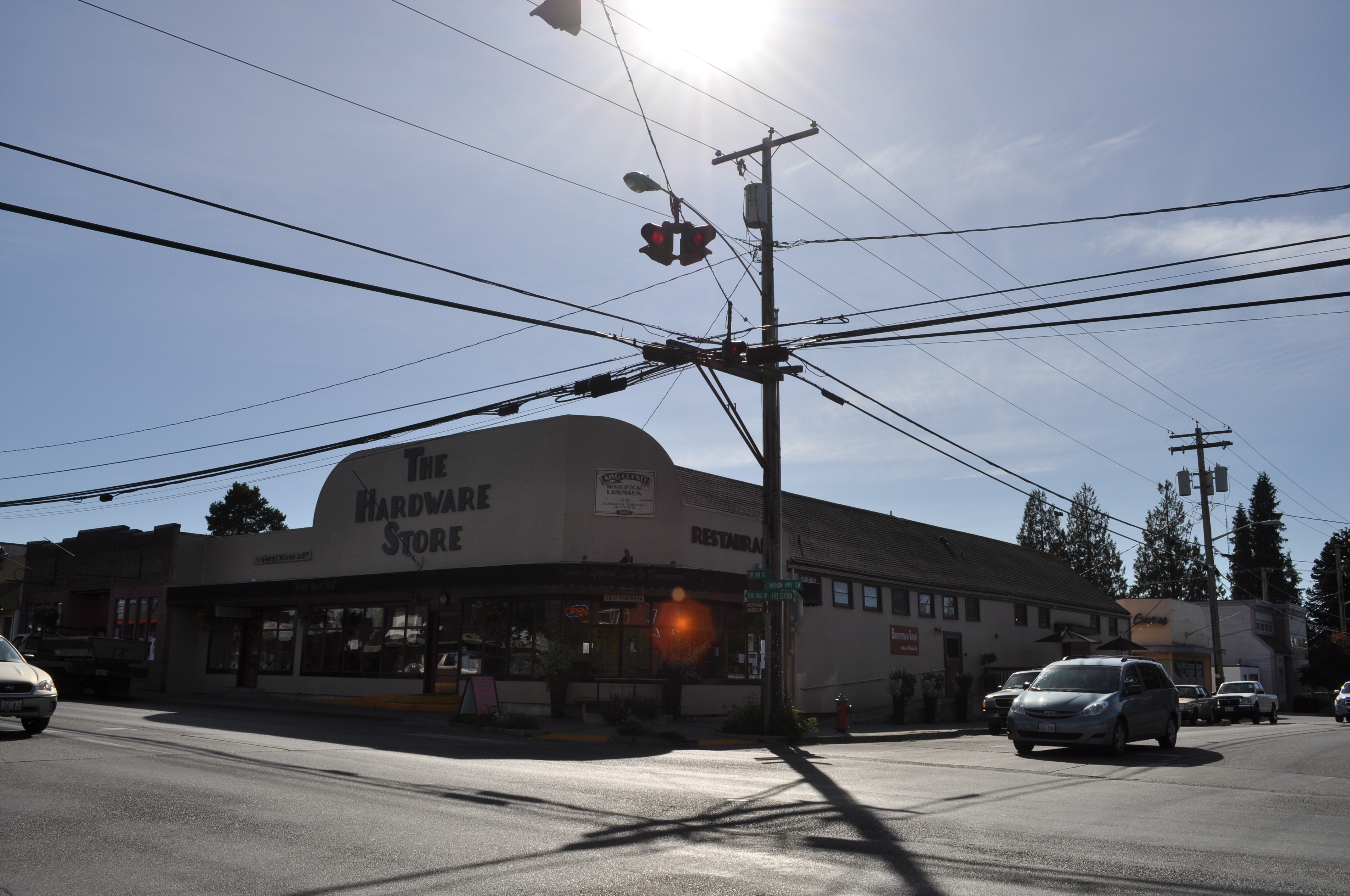 Vashon Hardware Store (now a restaurant, but keeping the name), 17601 Vashon Highway SW, Vashon, Washington. The oldest retail space on the island, it is listed on the National Register of Historic Places and as a King County landmark.